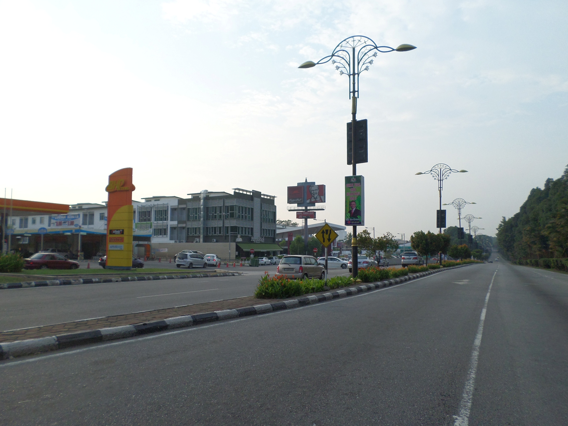 Ayer Keroh Highway, Ayer Keroh, Malacca, MalaysiaBahasa Melayu: Lebuh Ayer Keroh, Ayer Keroh, Melaka, Malaysia